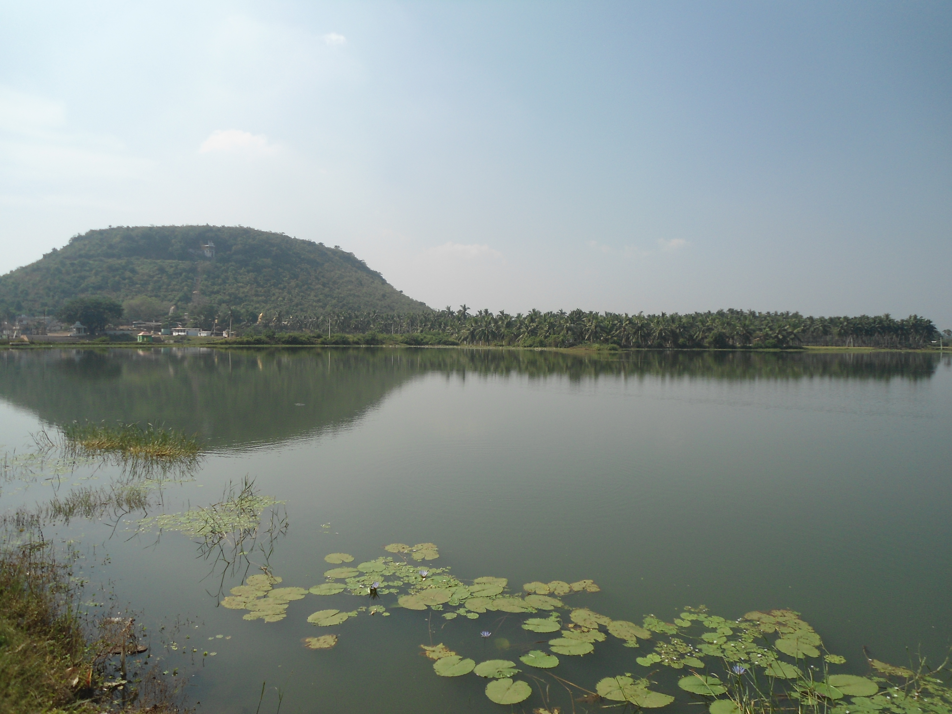 View of Upamaka cave temple hill near Nakkapalli, Visakhapatnam district